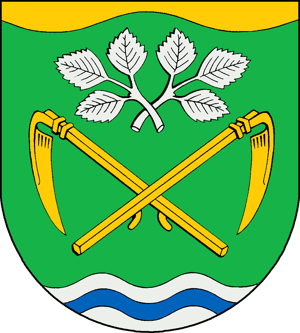 Coat of arms of the municipality Meezen in Schleswig-Holstein, Germany.